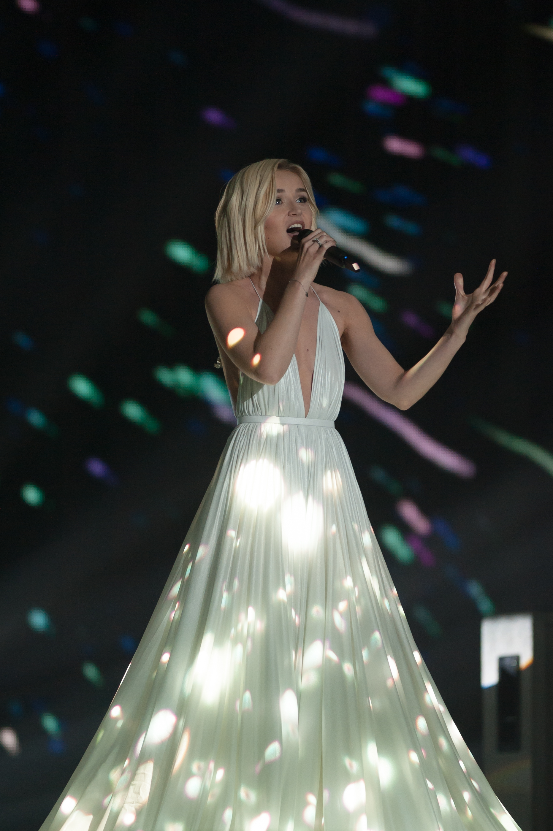 Eurovision Song Contest Vienna 2015: Polina Gagarina